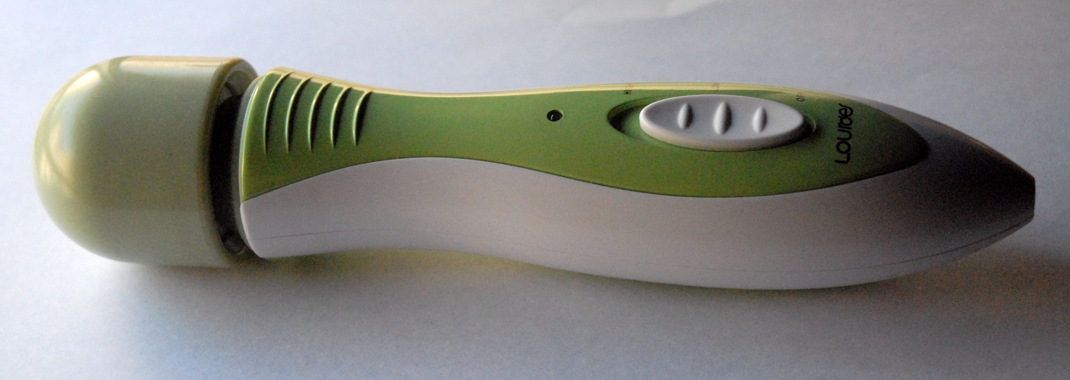 An electric massager